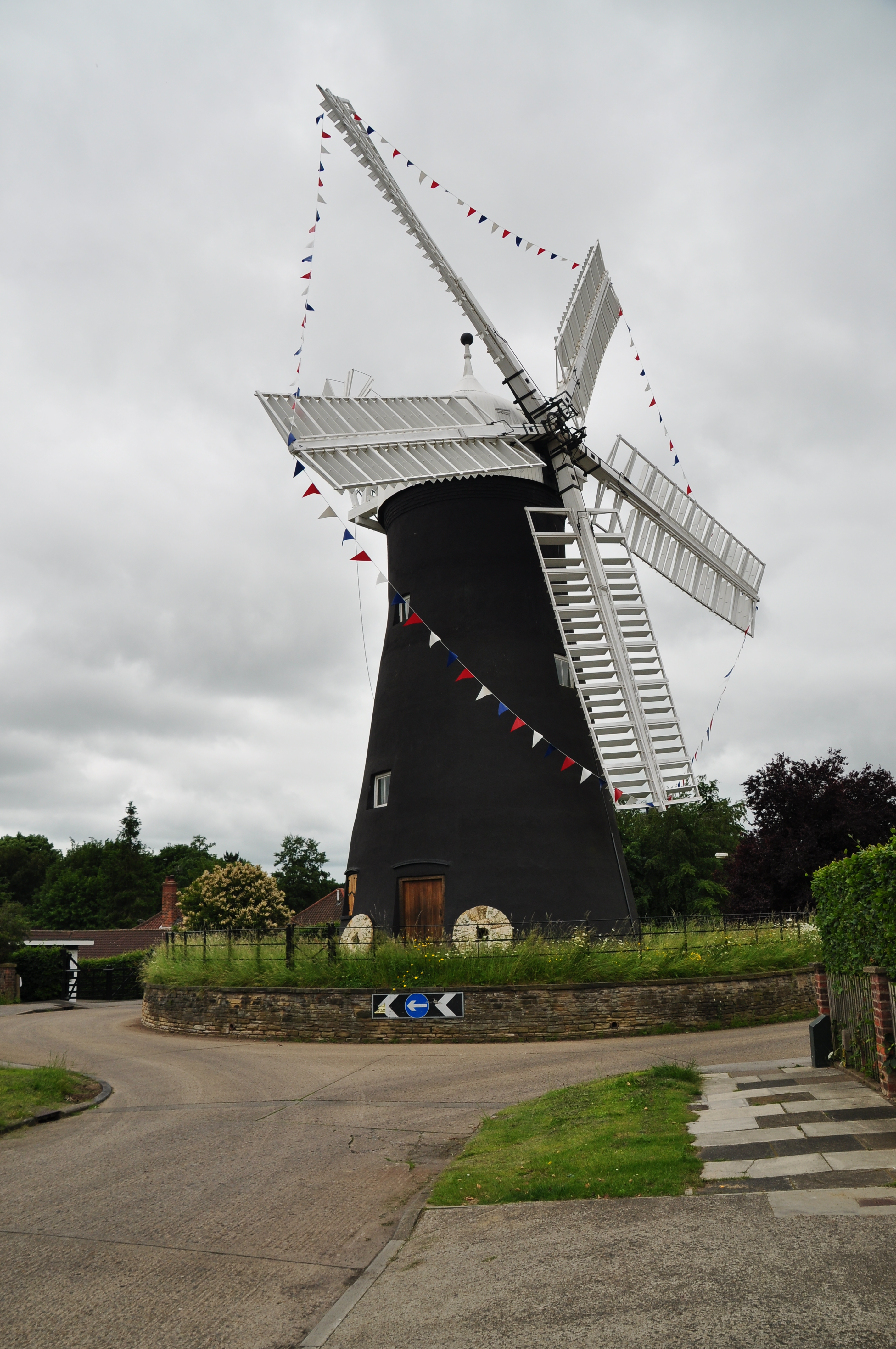 Holgate Windmill